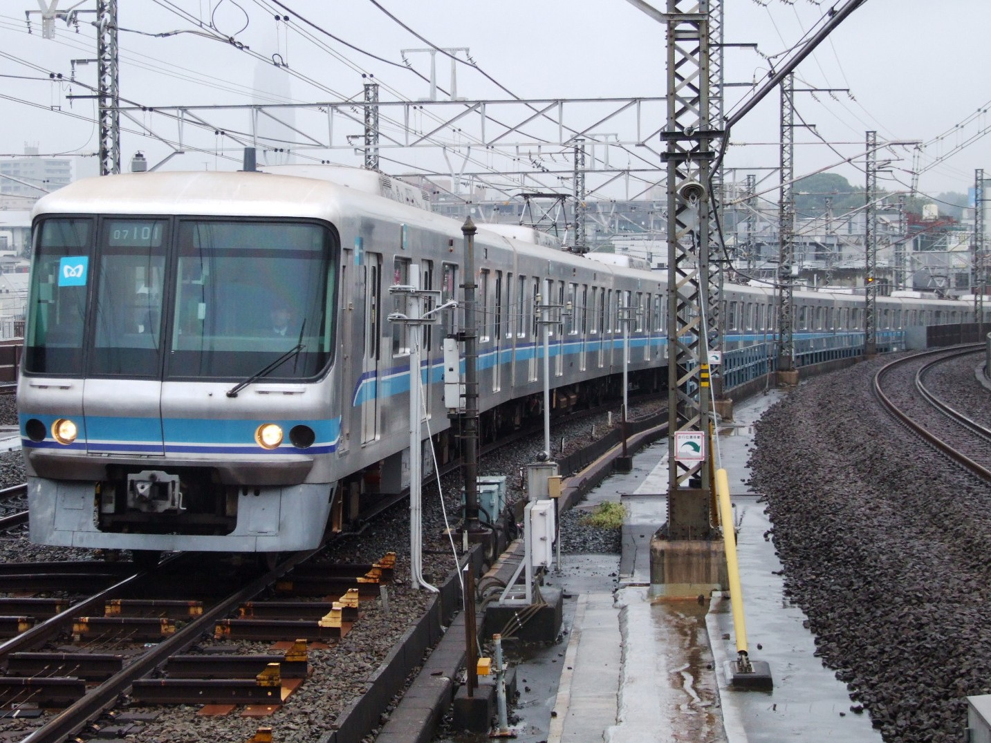 Series 07,Tokyo Metro Chiyoda Line,Tokyo Metro,Japan